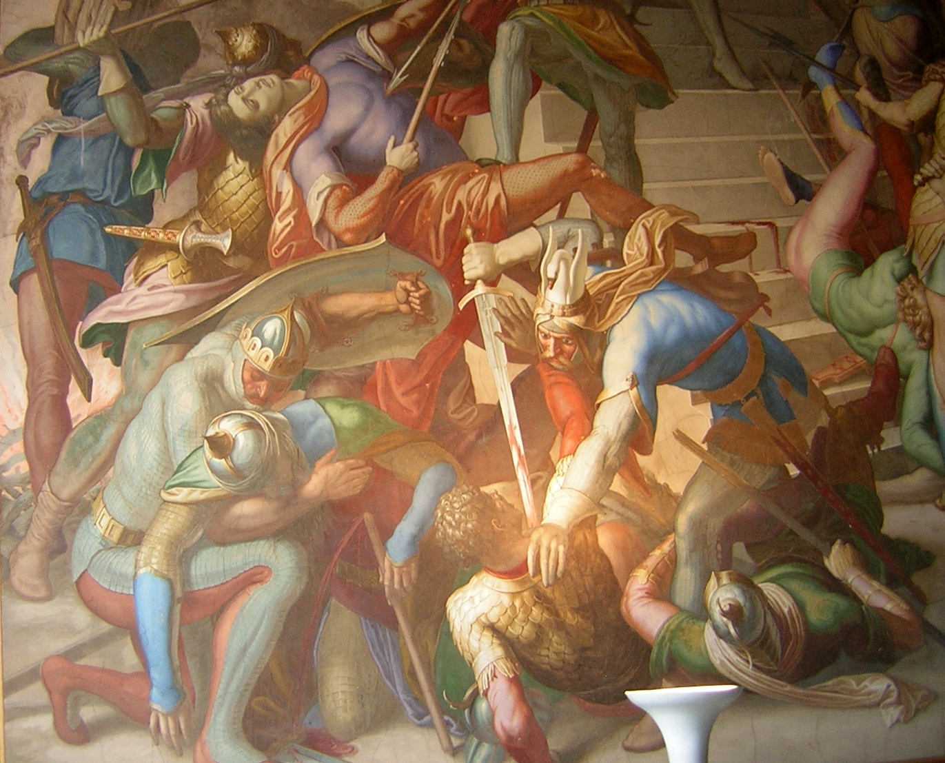 Battle between Nibelungs and Huns, Detail of a frescoe in the Nibelung Halls in Munich, Germany